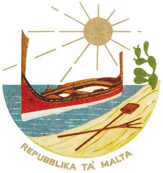 This is the coat of arms used between 1975 and 1988